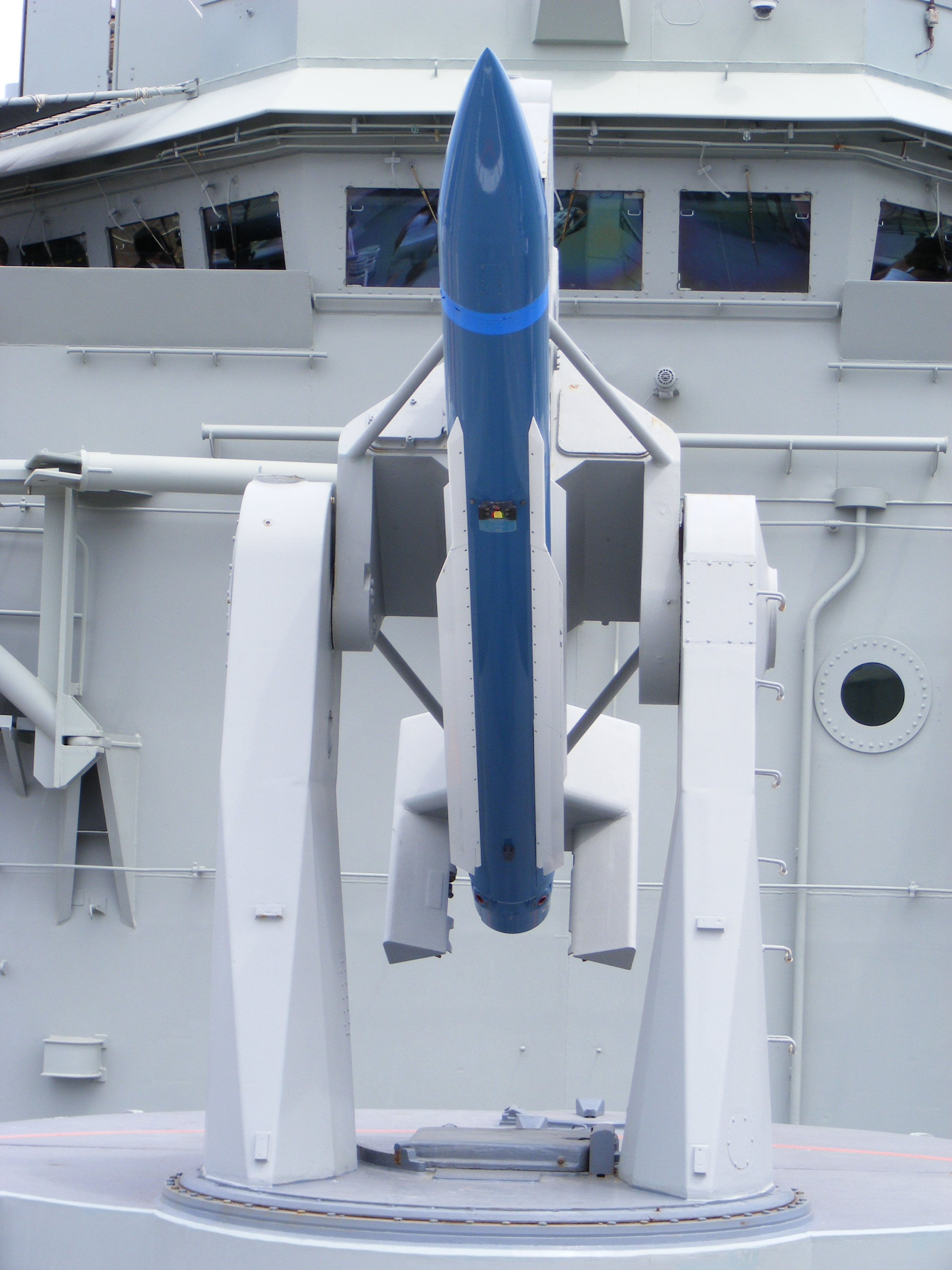 The Mk13 missile launcher of HMAS Adelaide (FFG 01) loaded with a MK59 Mod3 guided missile dummy round. Photo taken on an open day at Dock 2, Port Adelaide, South Australia